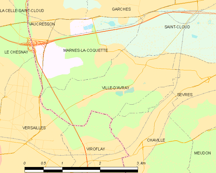 Map of French municipality Ville-d'Avray